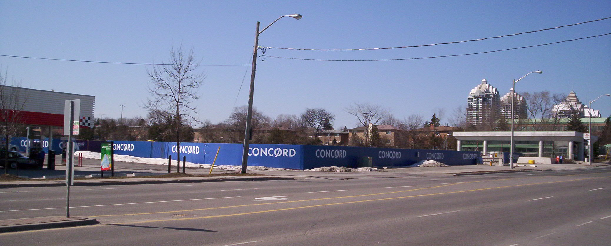 Bessarion subway and Concord development site